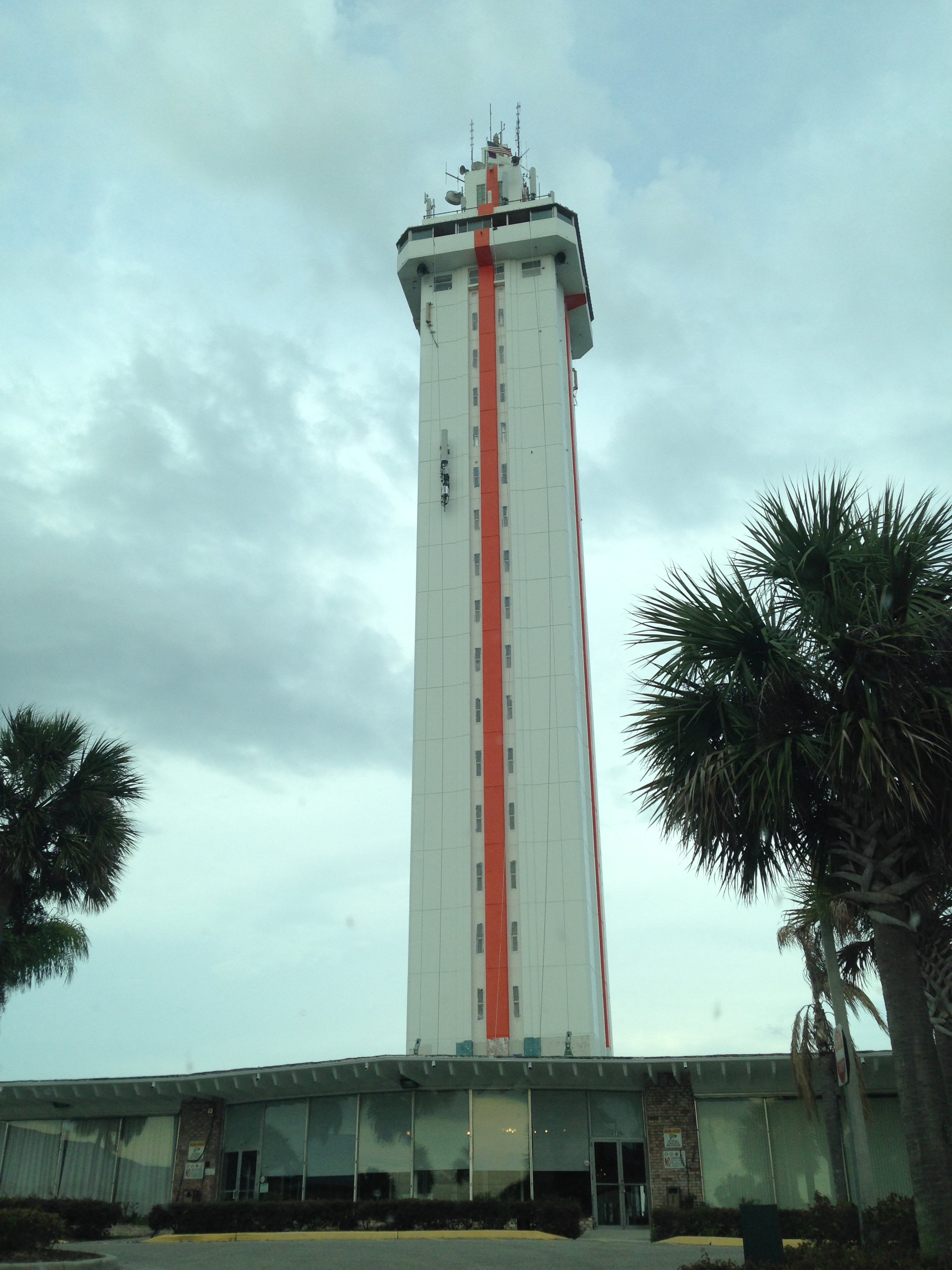 This is the Citrus Tower with the orange stripes recently painted.